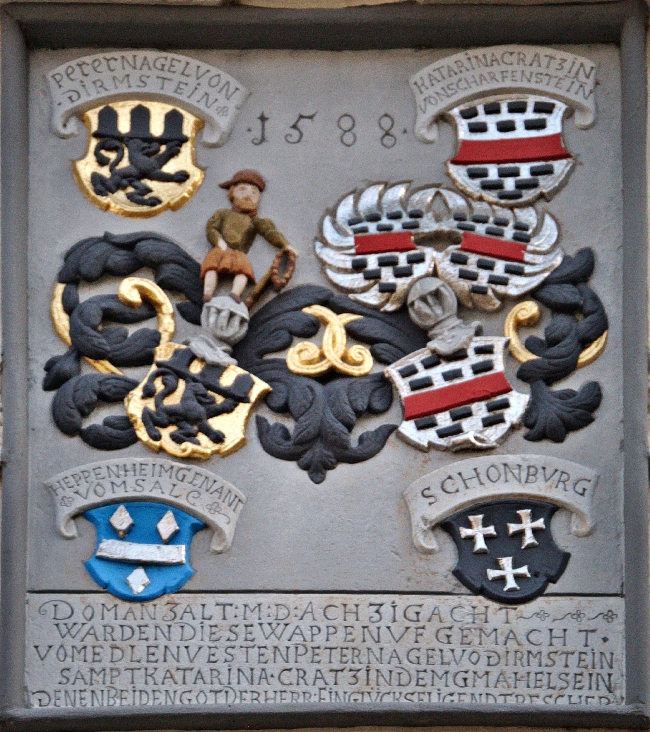 Freinsheim Nagelscher Hof, Hauptstr 27, Wappenstein, 1588